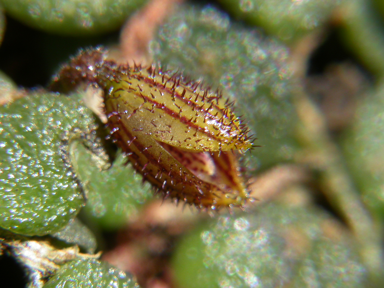 Phloeophila nummularia syn. Pleurothallis nummularia